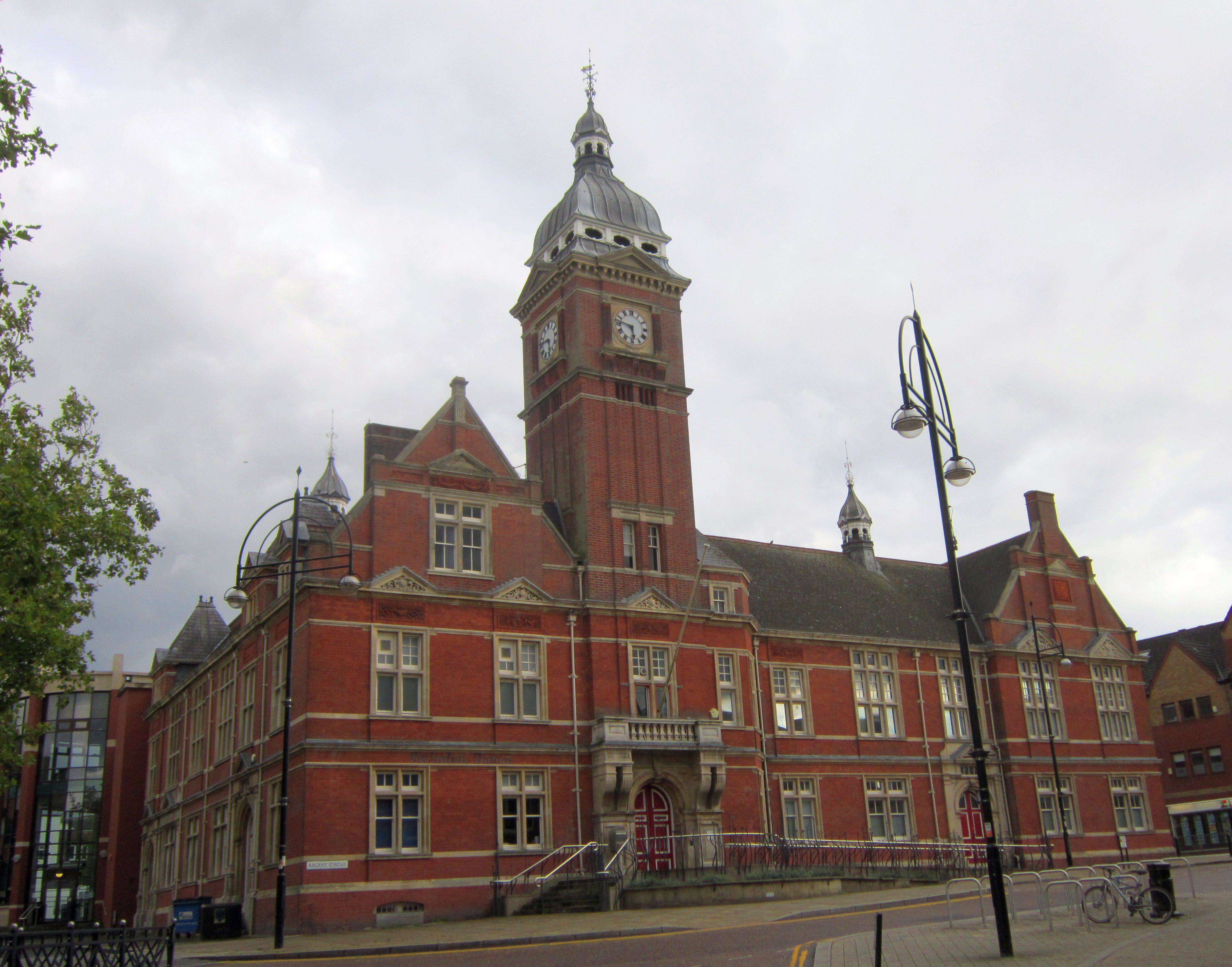 The Town Hall, Regent Circus, Swindon